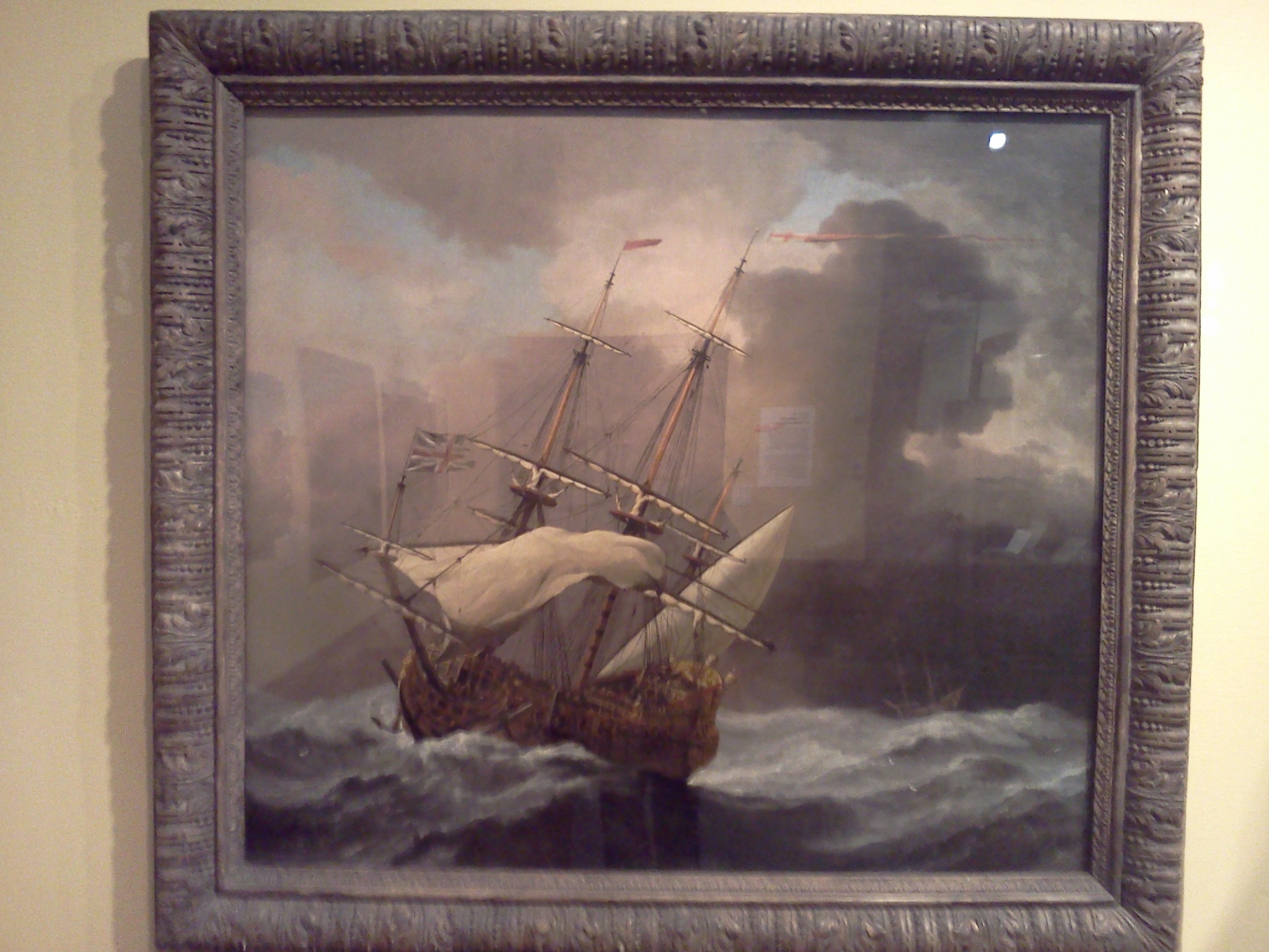 A picture of the painting "An English Man-o-War in a Gale" by Willem van de Velde the younger taken in Birmingham Museum and Art Gallery on March 3rd 2012.